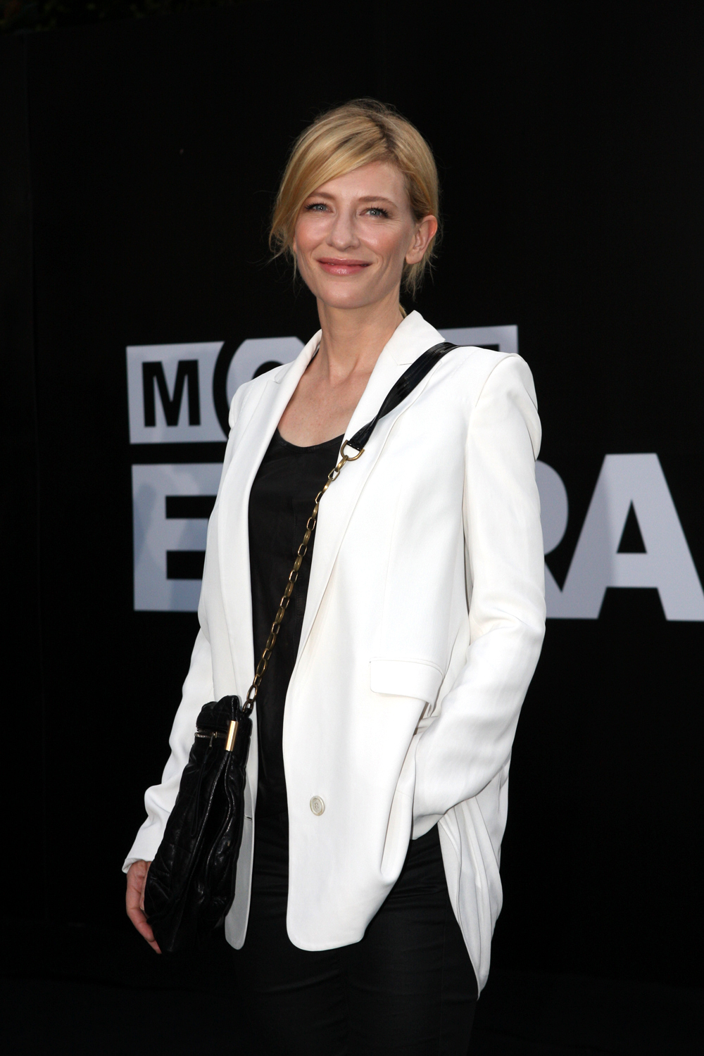 Cate Blanchett at the Tropfest Opens 2012 in Sydney, Australia